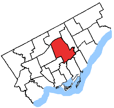 Map of the Don_Valley_West electoral district. Based on Earl Andrew's :Image:Ct04.PNG and :Image:St04.PNG, created by SimonP.